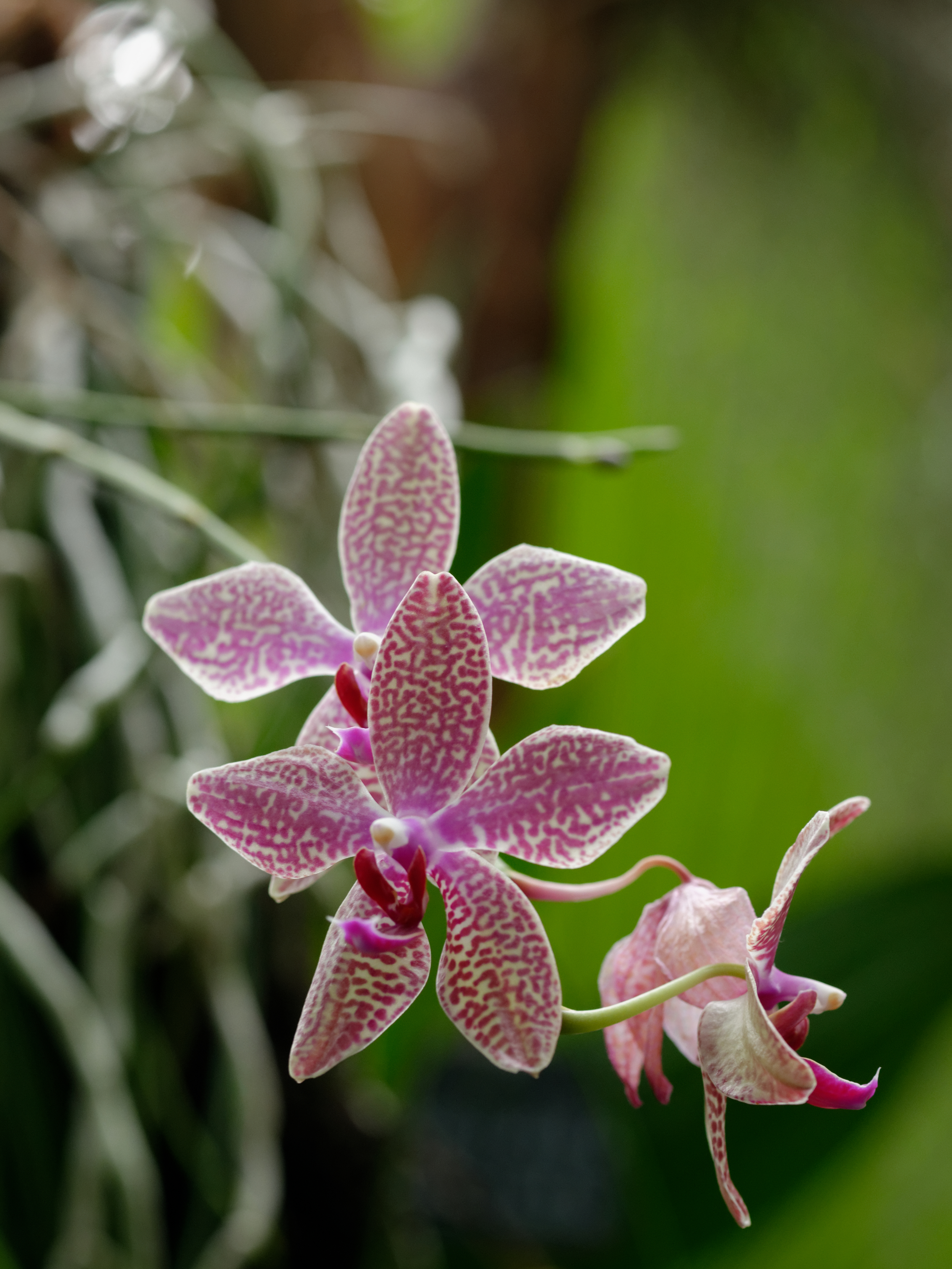 Phalaenopsis lueddemanniana from the ‘1001 Orchids’ exhibition at the Jardin des Plantes in Paris.